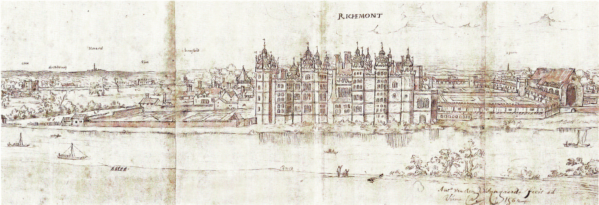 Richmond Palace from SW by Wyngaerde c.1558-62. Ashmolean Museum, Oxford. From left: Great Kitchen (with pointed roof), main Palace Donjon, Galleried gardens, Ruined church of Friars Observant (founded 1502) per Thurley, S. Royal Palaces of Tudor England, London, 1993, pp.32-3.